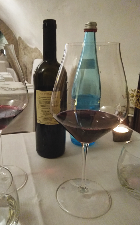 Centesimino year 2016